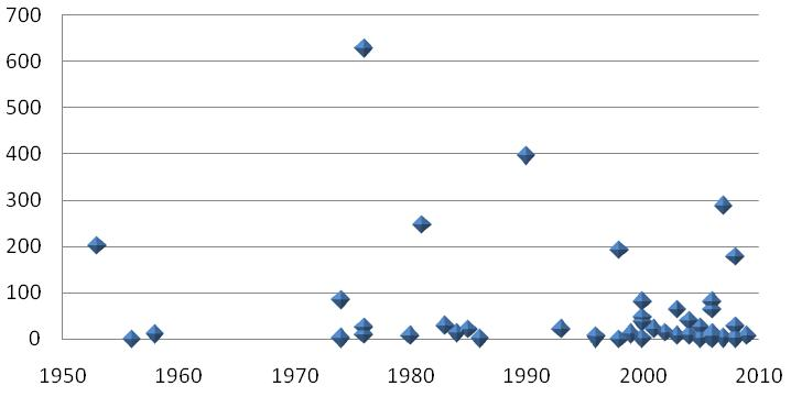 Sovereign wealth fund in the world